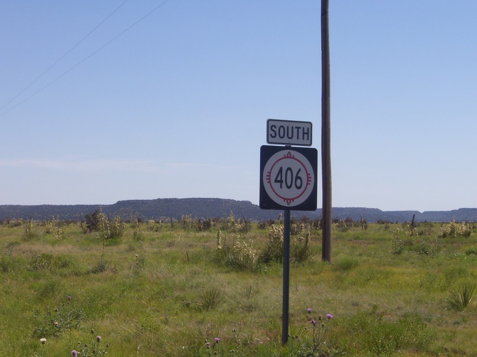 Signage for New Mexico's State Road 406 just south of its northern terminus at SR-456 in Union County.